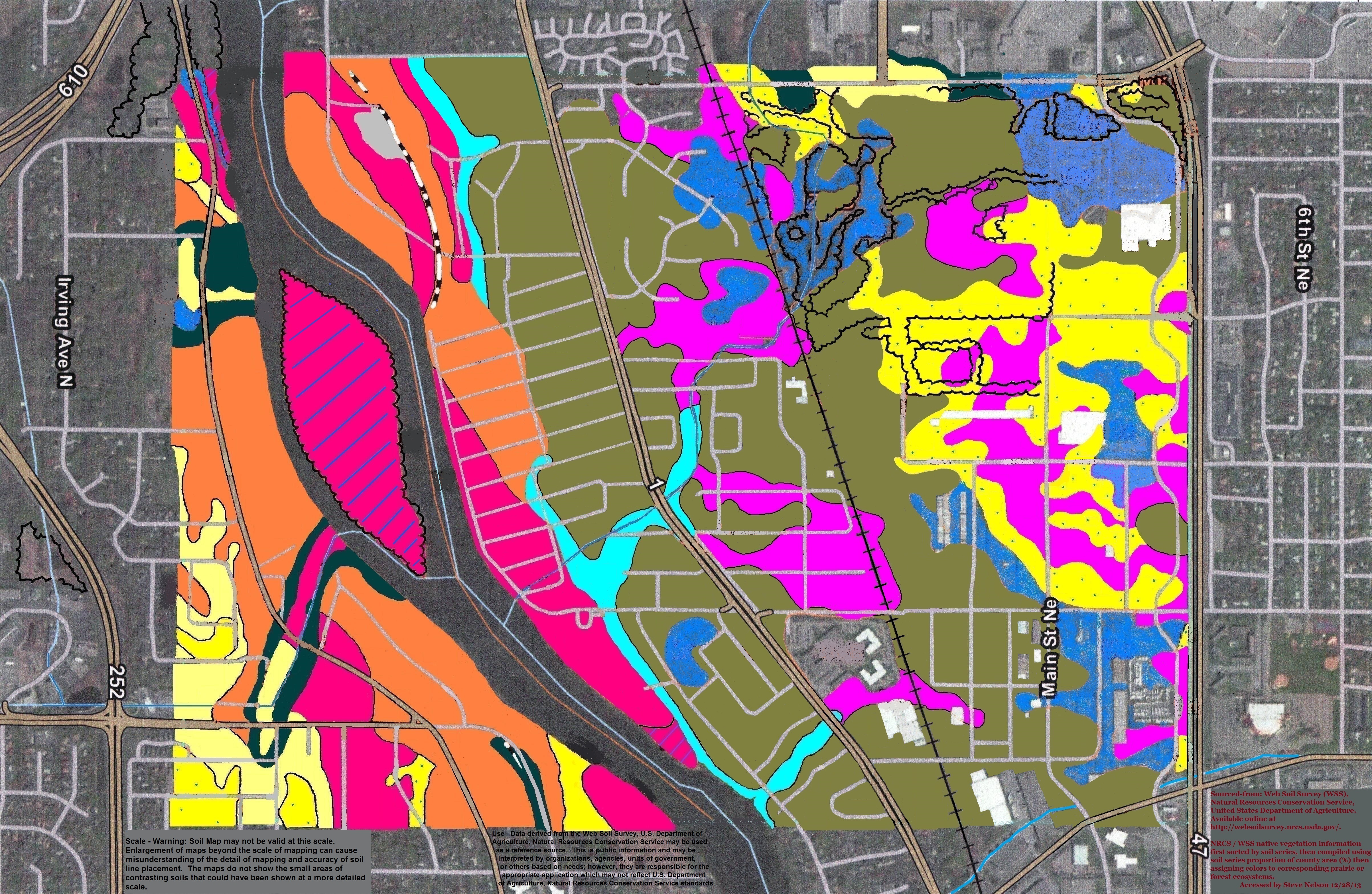 Springbrook Nature Center, located in Fridley, Minnesota is in the upper right area of this map. Map shows two Land Type Associations; Anoka Sandplain to the right and Mississippi River Terraces in red and orange colors on either side of river on left. Hardwood-conifer forest soils on entisols are colored in brownish green.